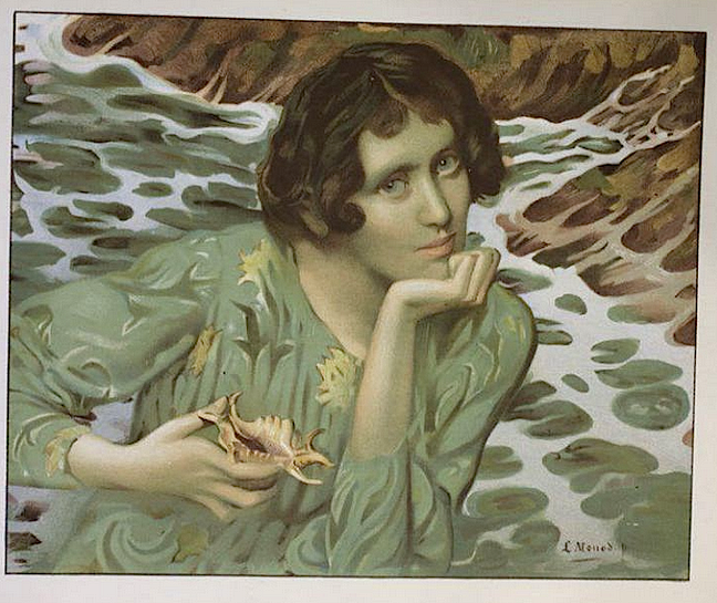 La Voix des sources by Lucien Hector Monod, lithographic print from L'Estampe moderne, vol. II, Paris, F. Champenois.